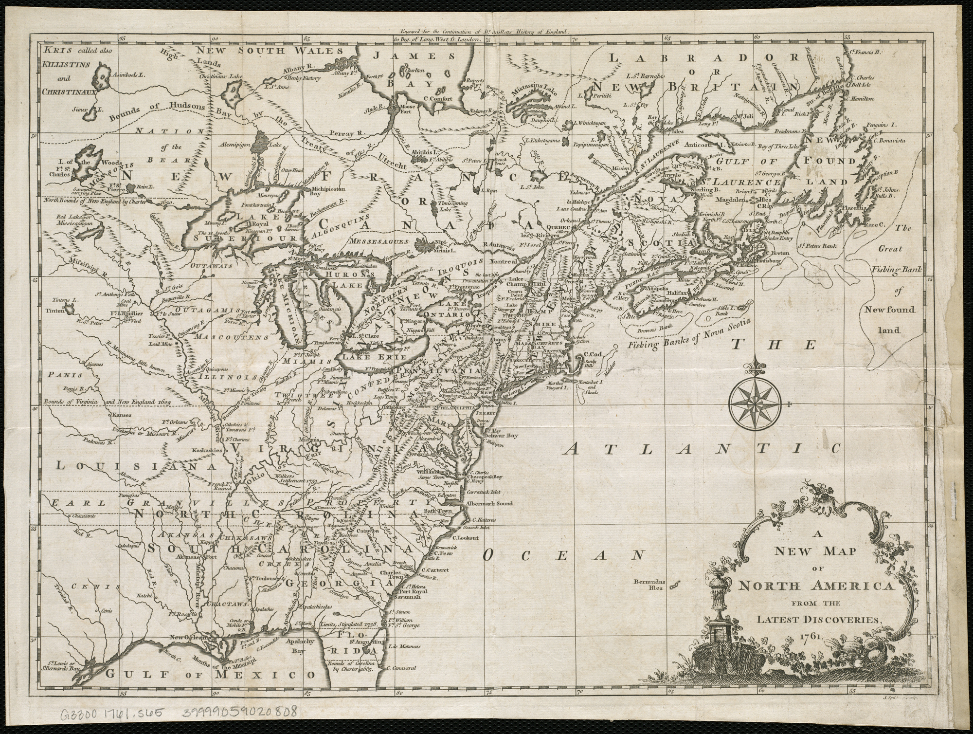 Zoom into this map at . Author: Spilsbury, John Date: 1761 Location: North America Dimension: 27x37cm Scale: ca. 1:12,000,000 Call Number: G3300 1761 .S65